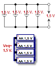 Batteries connected in parallel